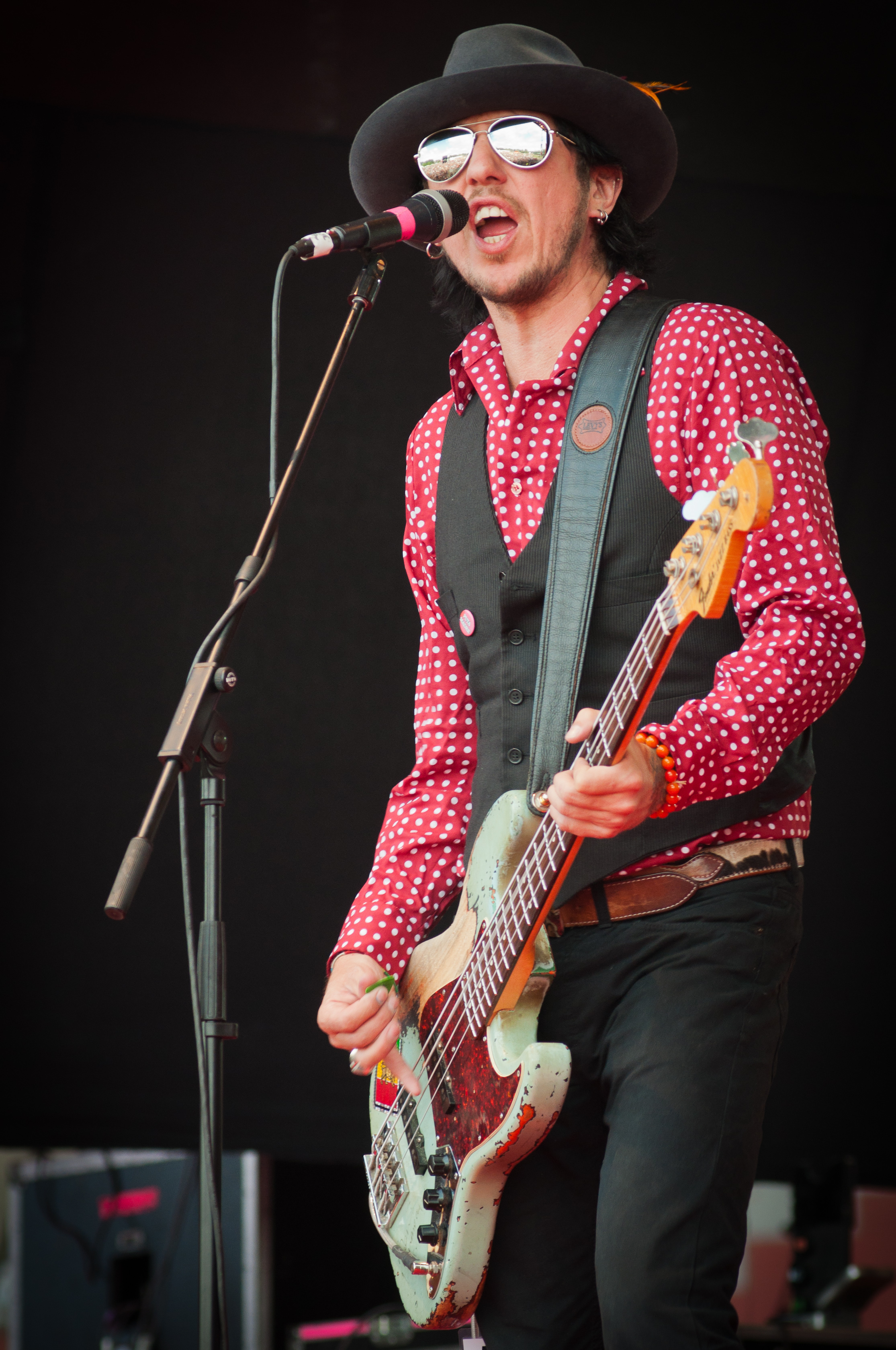 Finnish bassist Sami Yaffa performing at the 2011 Ilosaarirock festival in Joensuu, Finland with Michael Monroe.